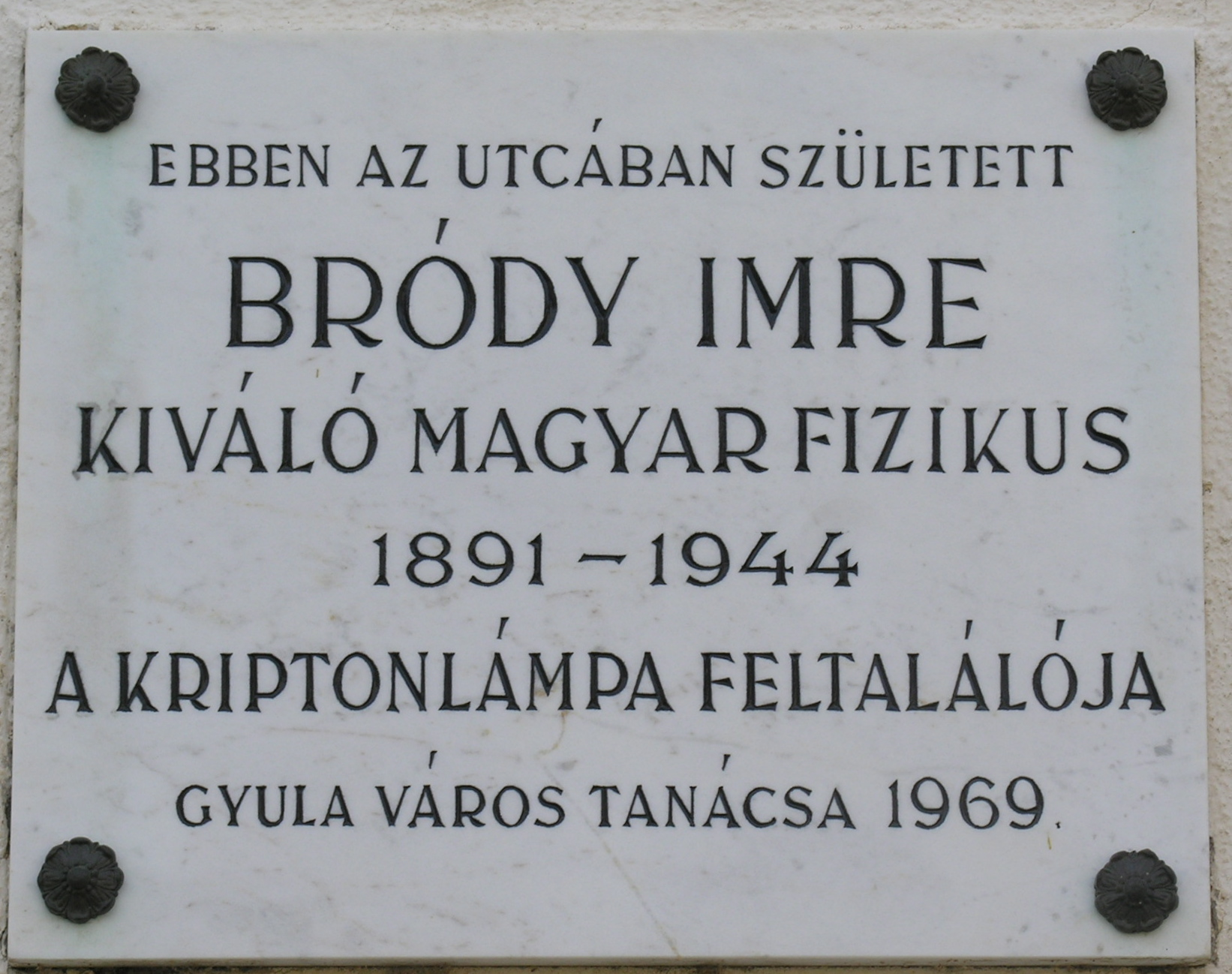 Plaque to Imre Bródy in Gyula (Blanár László street 1.)